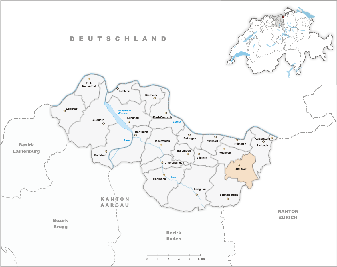 Municipality Siglistorf